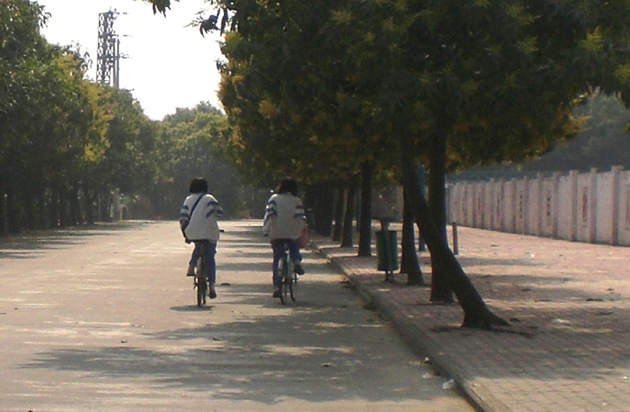 Students biking on tree lined road in the town of Dongchong, Panyu, China. This is a cropped version of the original photo. The image was also adjusted for improved contrast.